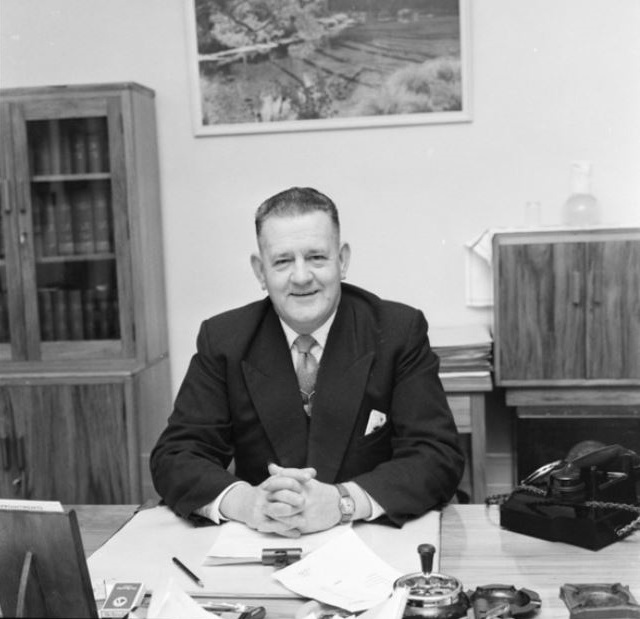 The Minister of Works Hugh Watt seated in his office.